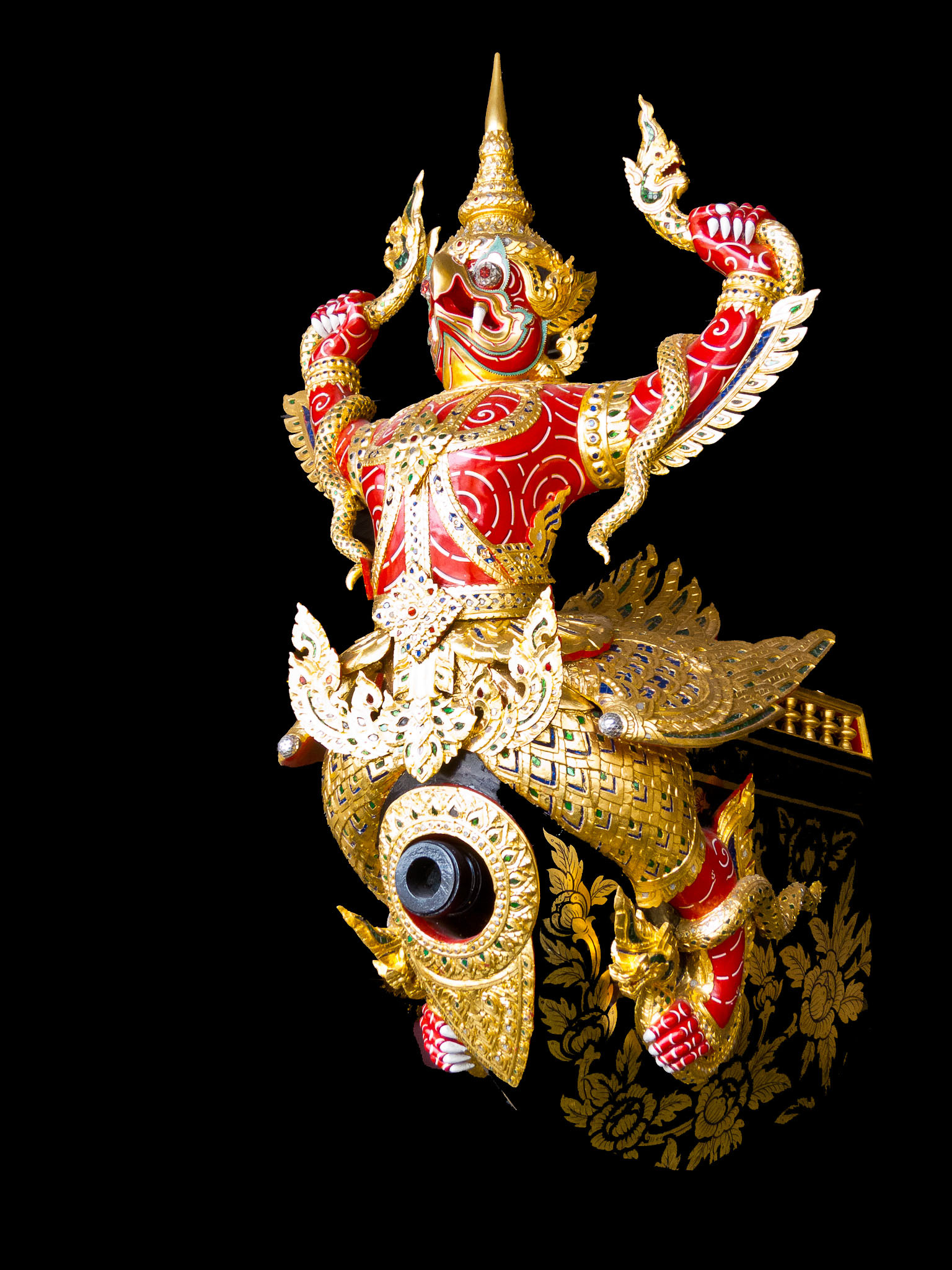 The figurehead on the Garuda Hern Het Barge at the National Museum of Royal Barges in Bangkok, Thailand.